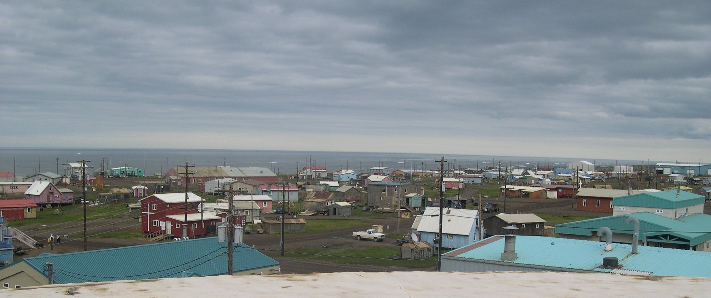 Wainwright, AK